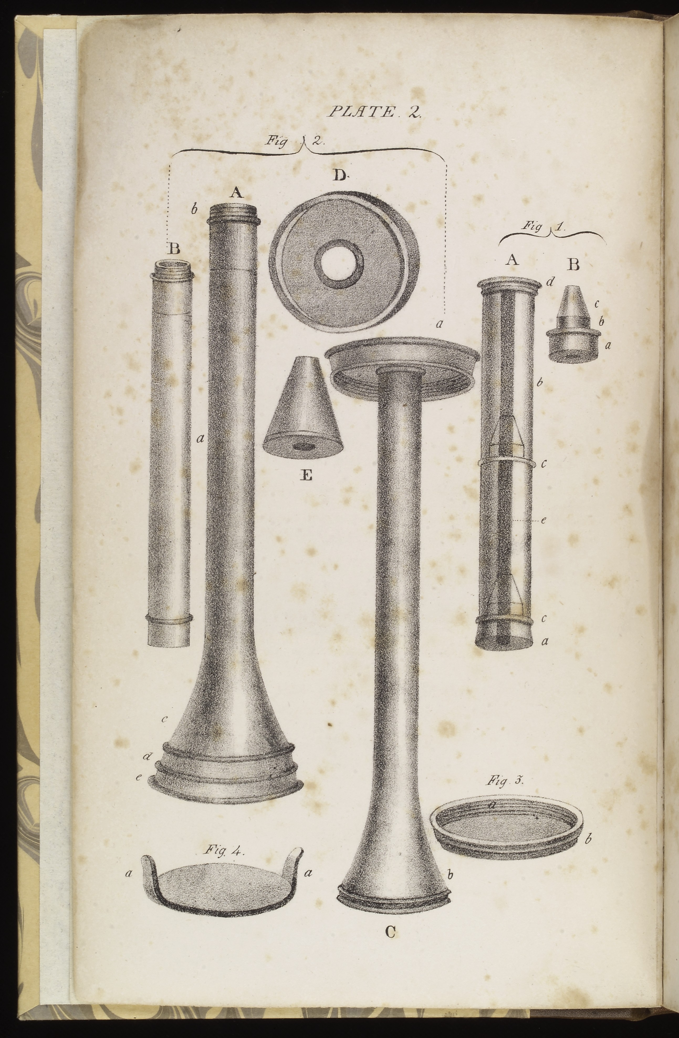 Frontispiece (opposite Title Page) to R.T.H.Laennec's 'A Treatise on the Diseases of the Chest and on Mediate Auscultation.....' featuring various medical instruments and labelled 'Plate 2'. Rare Books Keywords: Auscultation; Chest; Surgical Instruments; Thorax